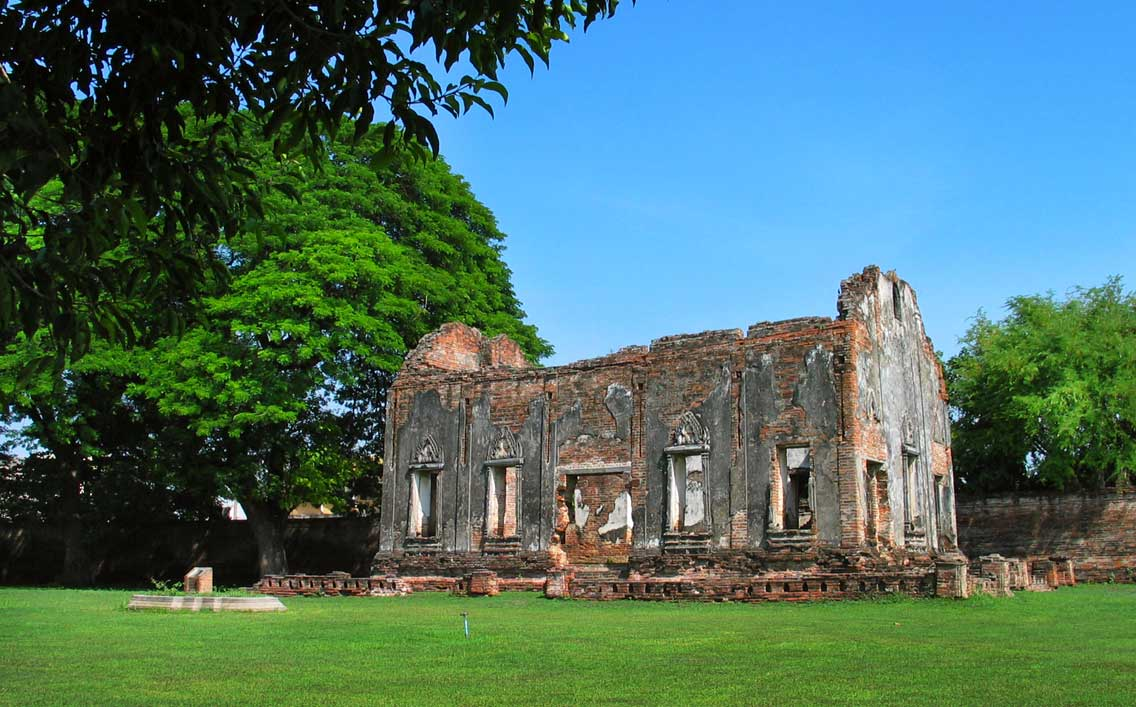 Phra Chao Hao Building in Phra Narai Ratcha Nivet, palace of King Narai, Lopburi, Thailand